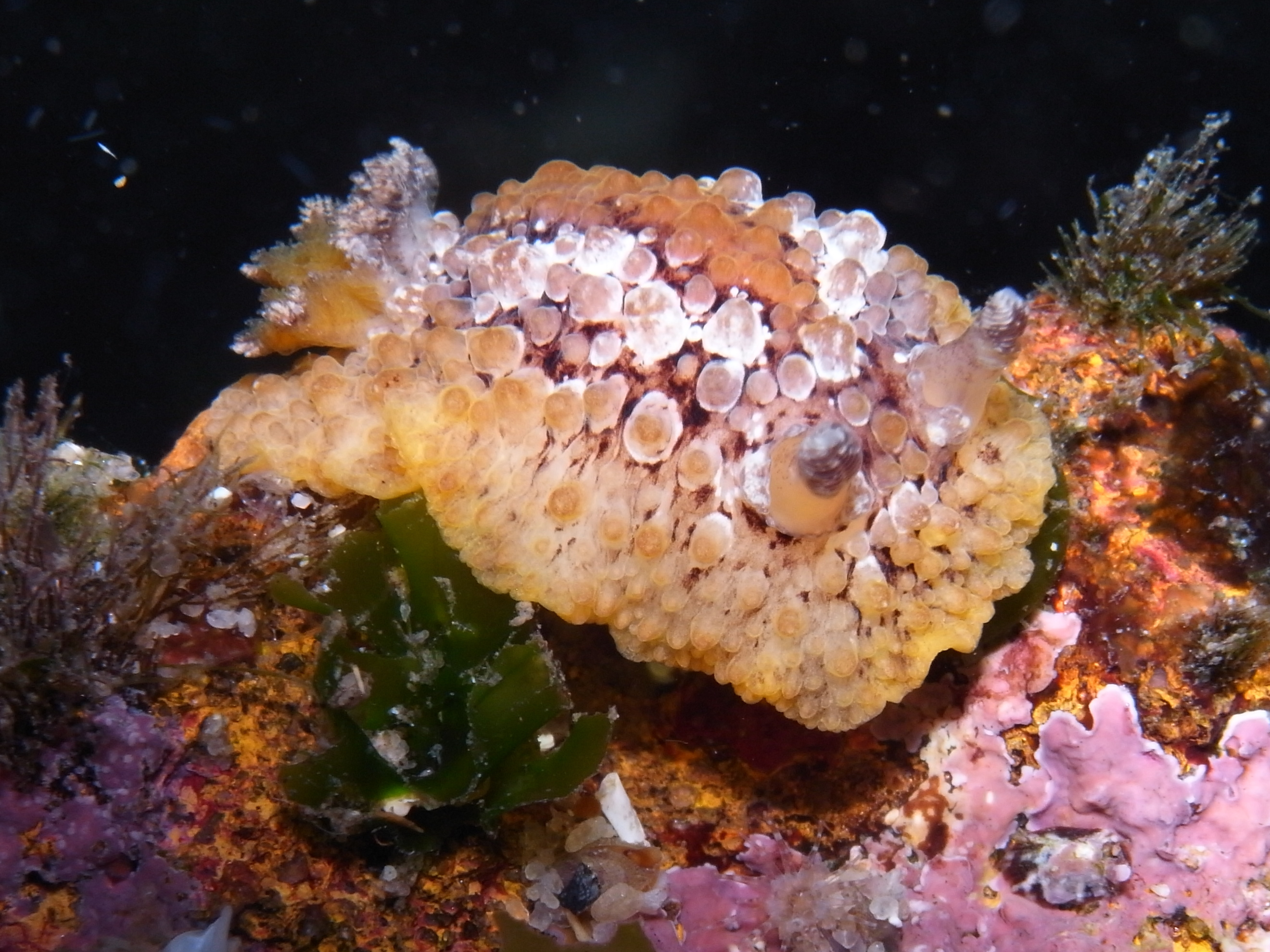 Rockpool Bronte Beach, Sydney, NSW Size: 40mm Discovered: 1864, Angas